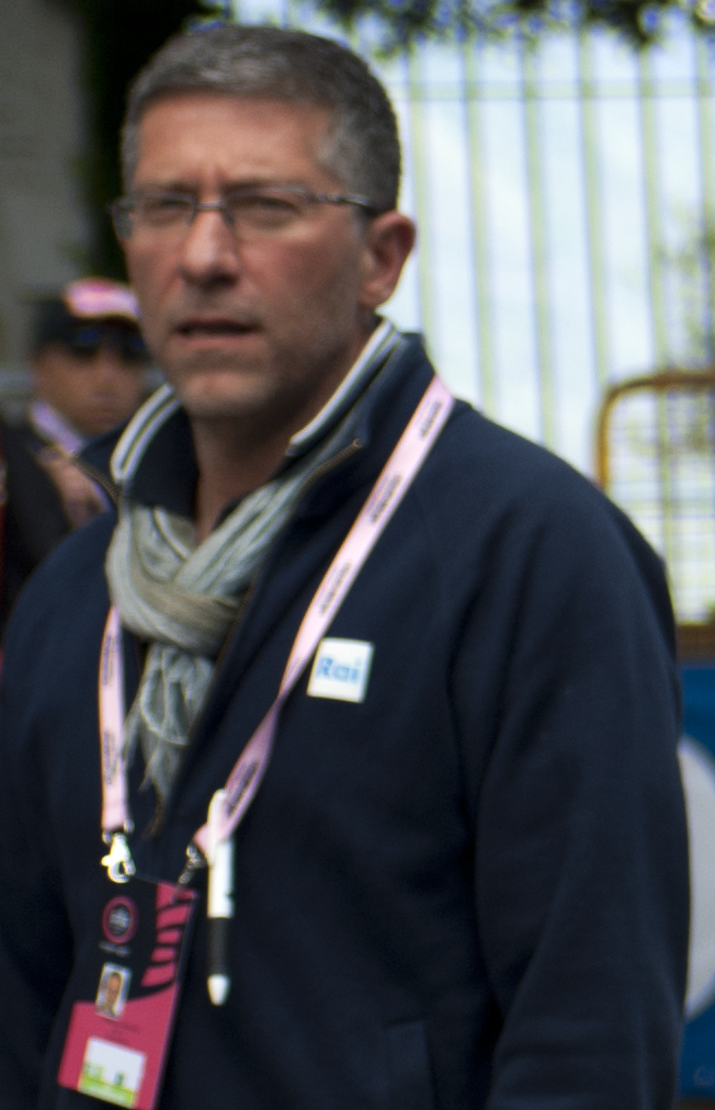 TV commentator Stefano Garzelli at the Montecassino finish line of Giro d'Italia stage.